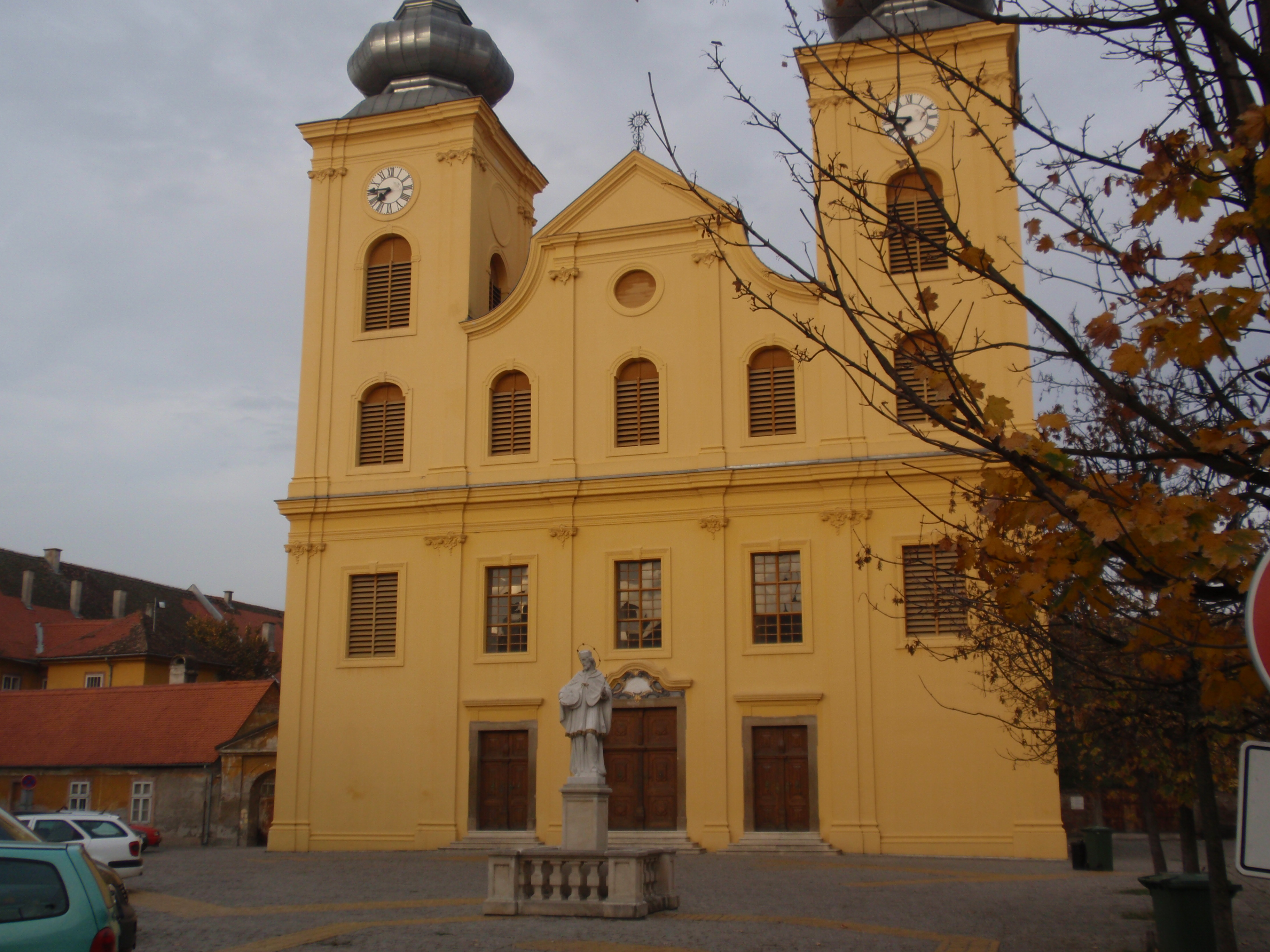 St. Michael's Church, Osijek